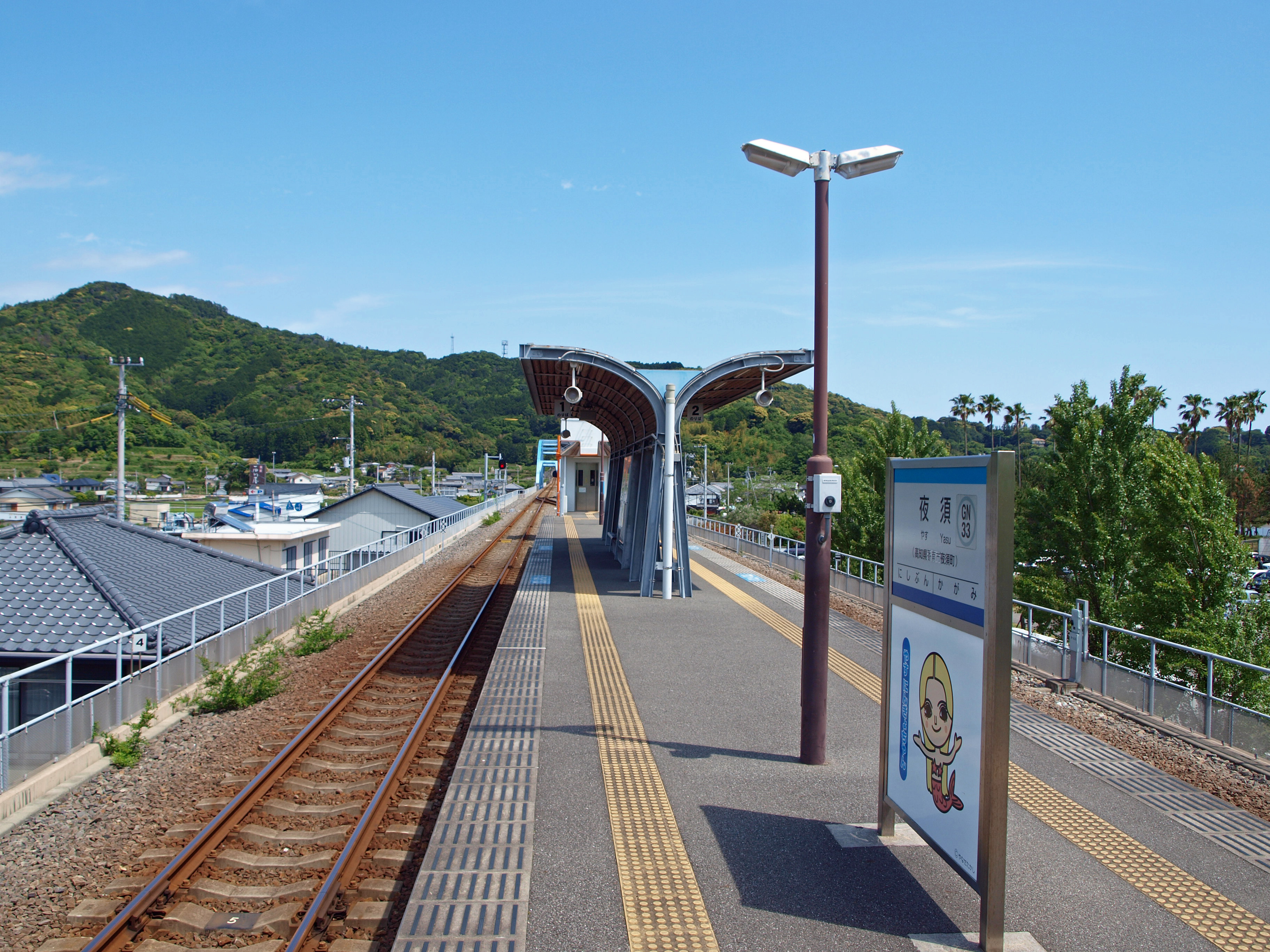 Yasu Station, Gomen-Nahari Line（Asa Line), Tosa Kuroshio Railway, Japan